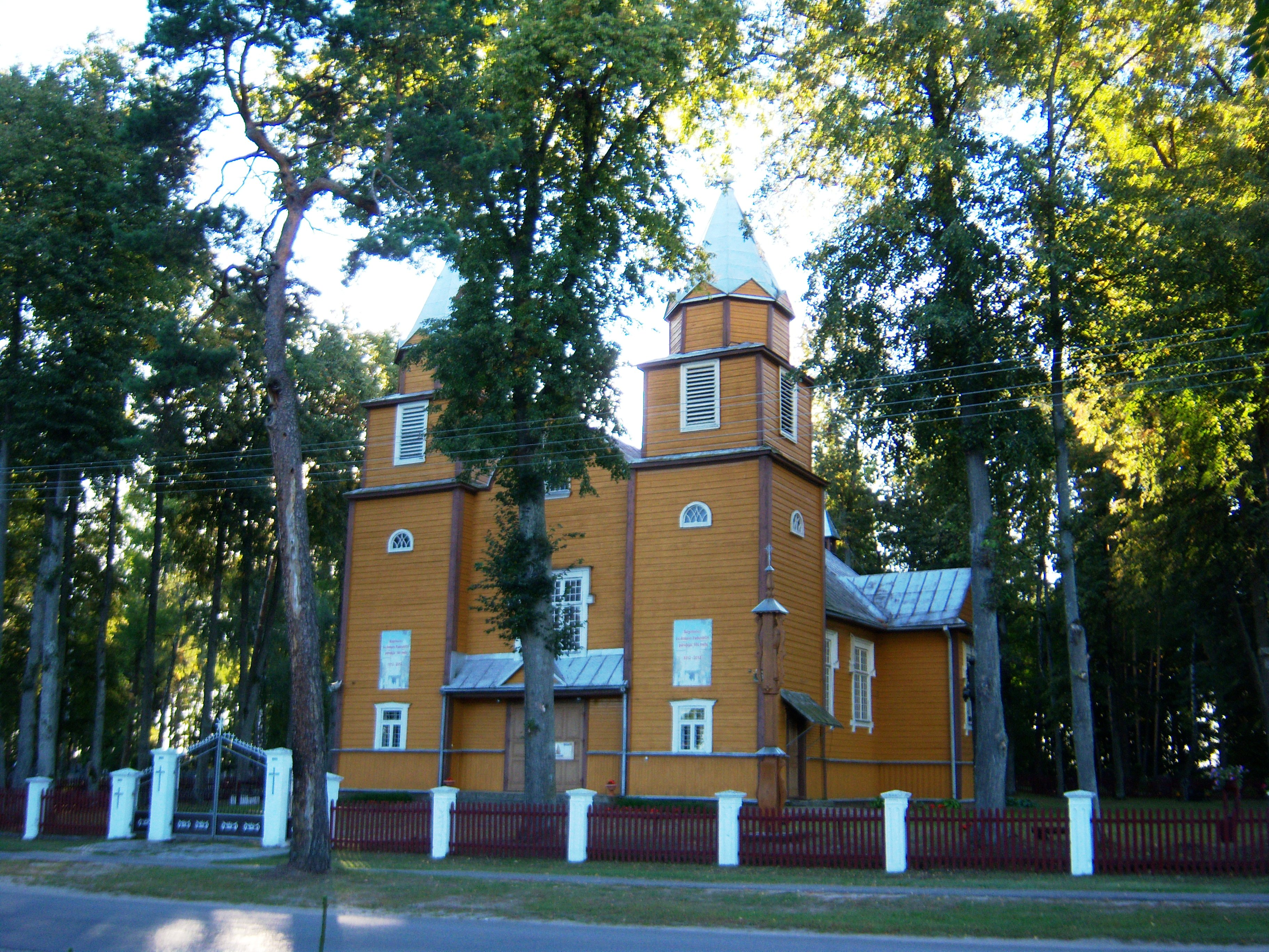 Catholic church in Bagotoji, Kazlų Rūda municipality, Lithuania